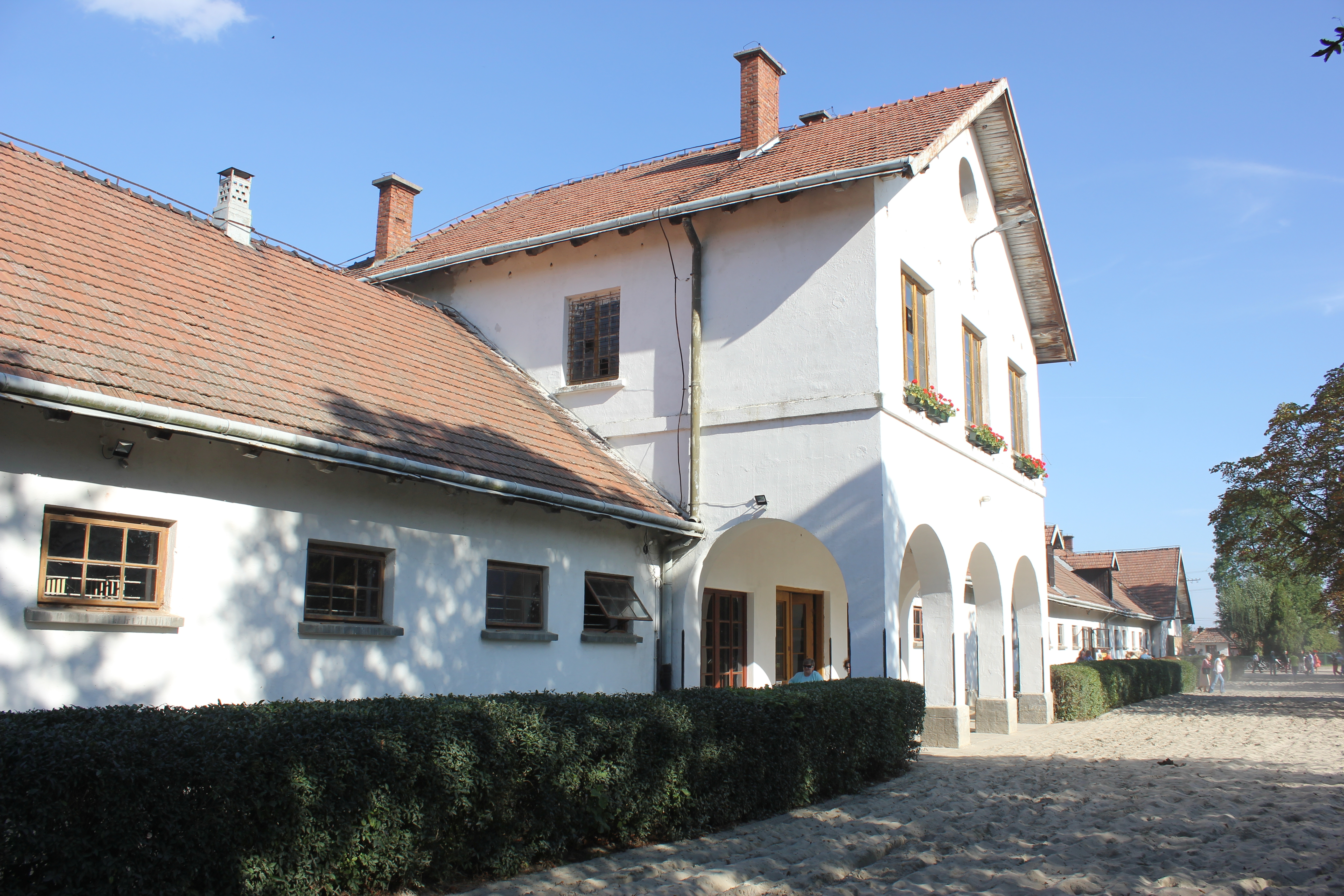 Tarnów - Klikowa stud farm